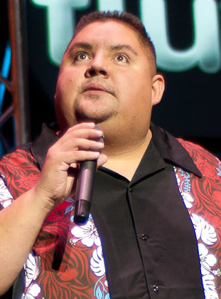 Gaberial Iglesias, Coronado Theater, Rockford IL